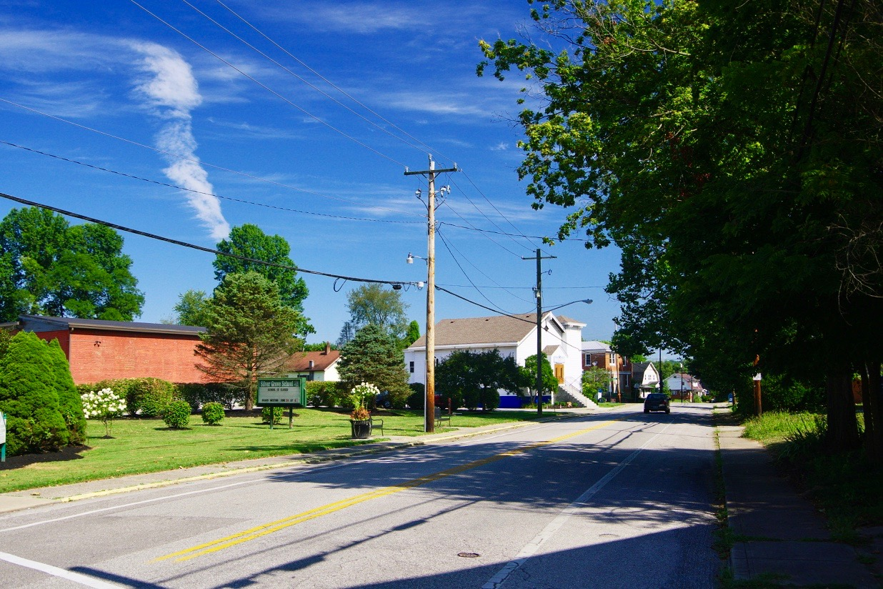 View along Four Mile Pike (Kentucky Route 547) in Silver Grove, Kentucky, United States.